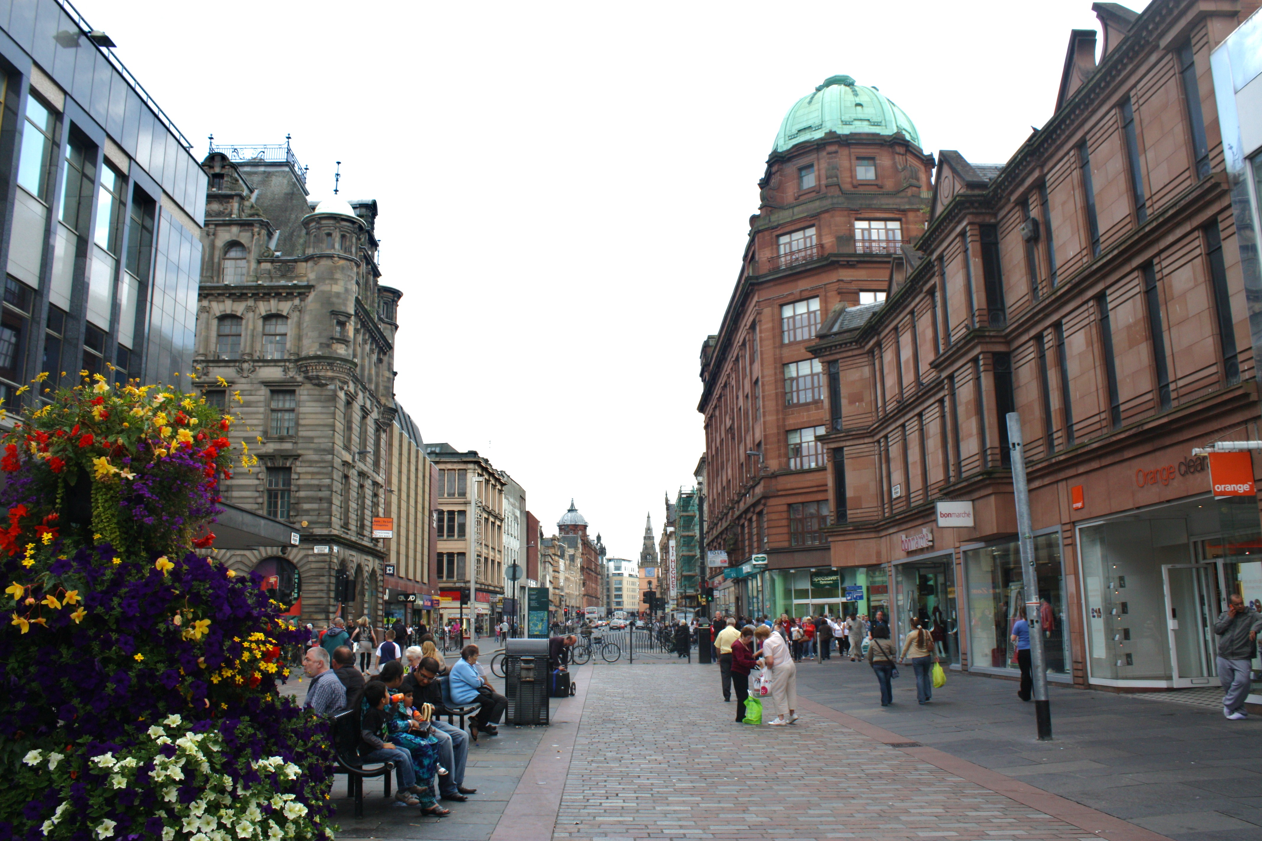 Argyle Street, looking towards Tron Steeple at Glasgow Cross. Merchant City, Glasgow, Scotland.